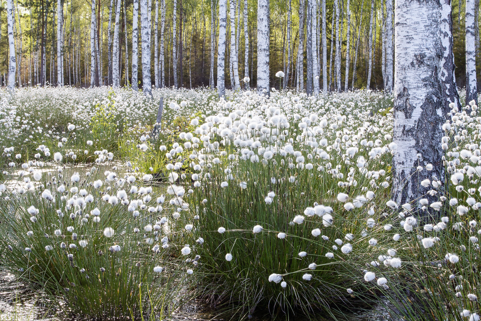 Hare's-tail cottongrass Eriophorum vaginatum. Somewhere east of Pogubie Wielkie Lake. The coordinates are approximate (士700 m). Puszcza Piska Forest (Pisz Forest), Masurian Lake District (Masurian Lakeland), Poland. This is a photography of Natura 2000 protected area with ID PLB280008 This is a photography of Natura 2000 protected area with ID PLH300045